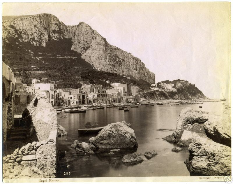 Giorgio Sommer (1834-1914) - "Capri - Seaside". Catalogue # 2143.